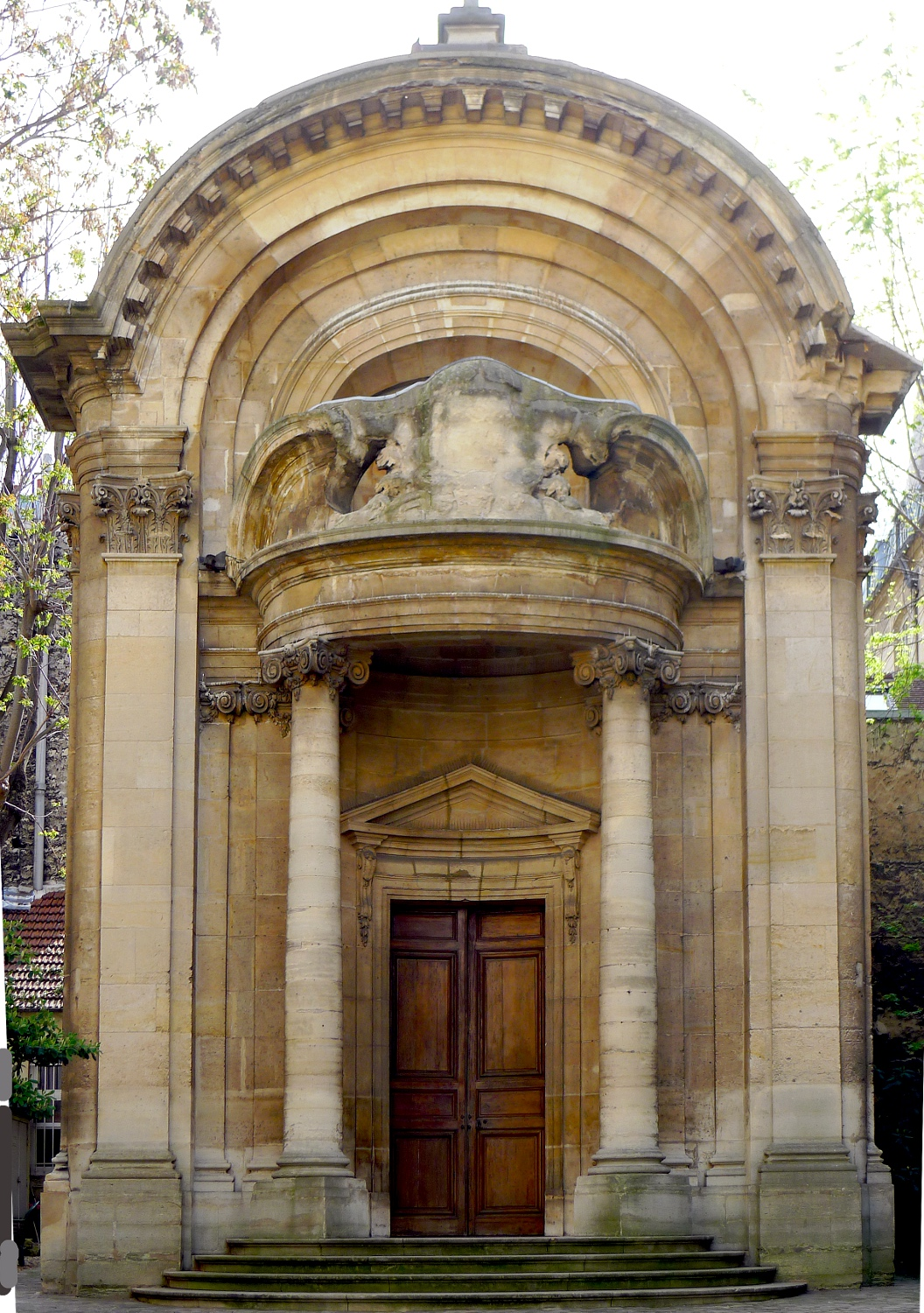 Saint-Ephrem-le-Syriaque church - Paris